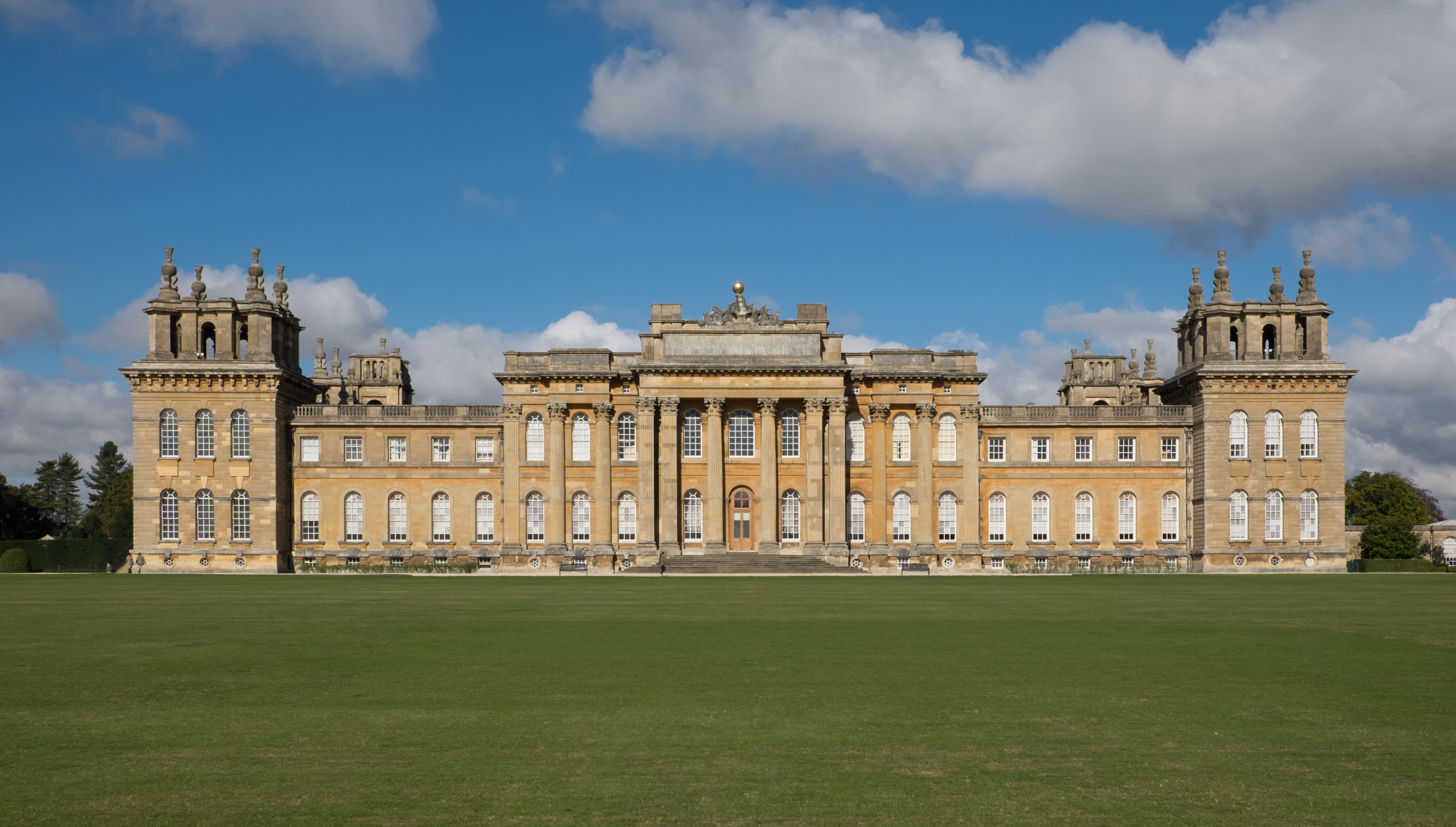 The facade of Blenheim Palace from the South Lawn, a World Heritage Site. This place is a UNESCO World Heritage Site, listed as Blenheim Palace.